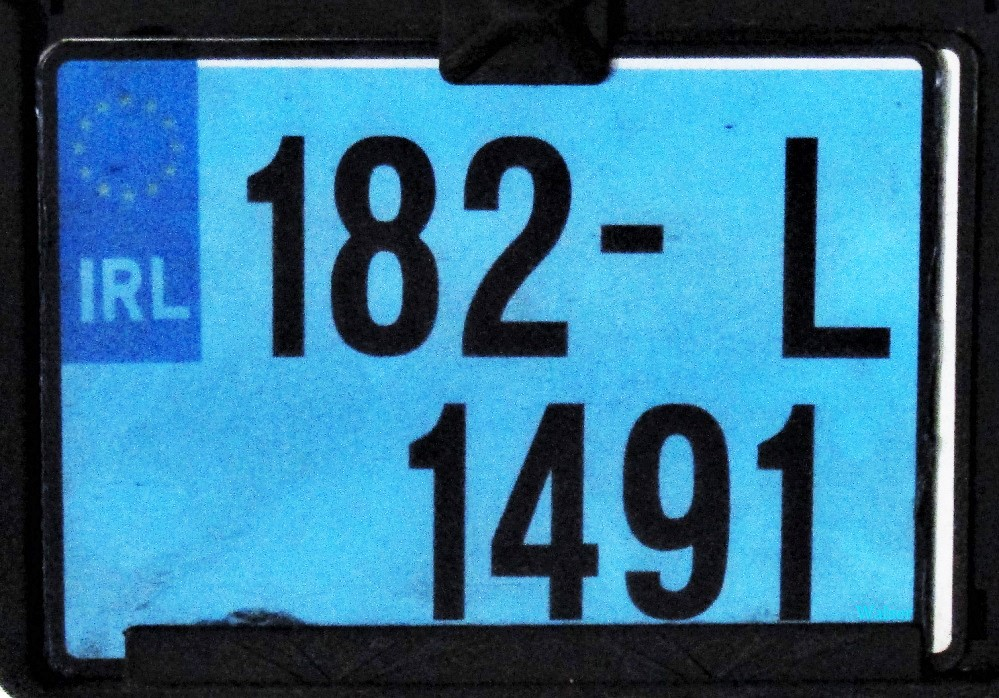 Ireland - Limerick repeater license plate